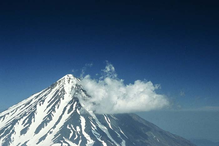 Koryaksy volcano, Kamchatka, Russia, as seen from Avachinsky volcano peak.